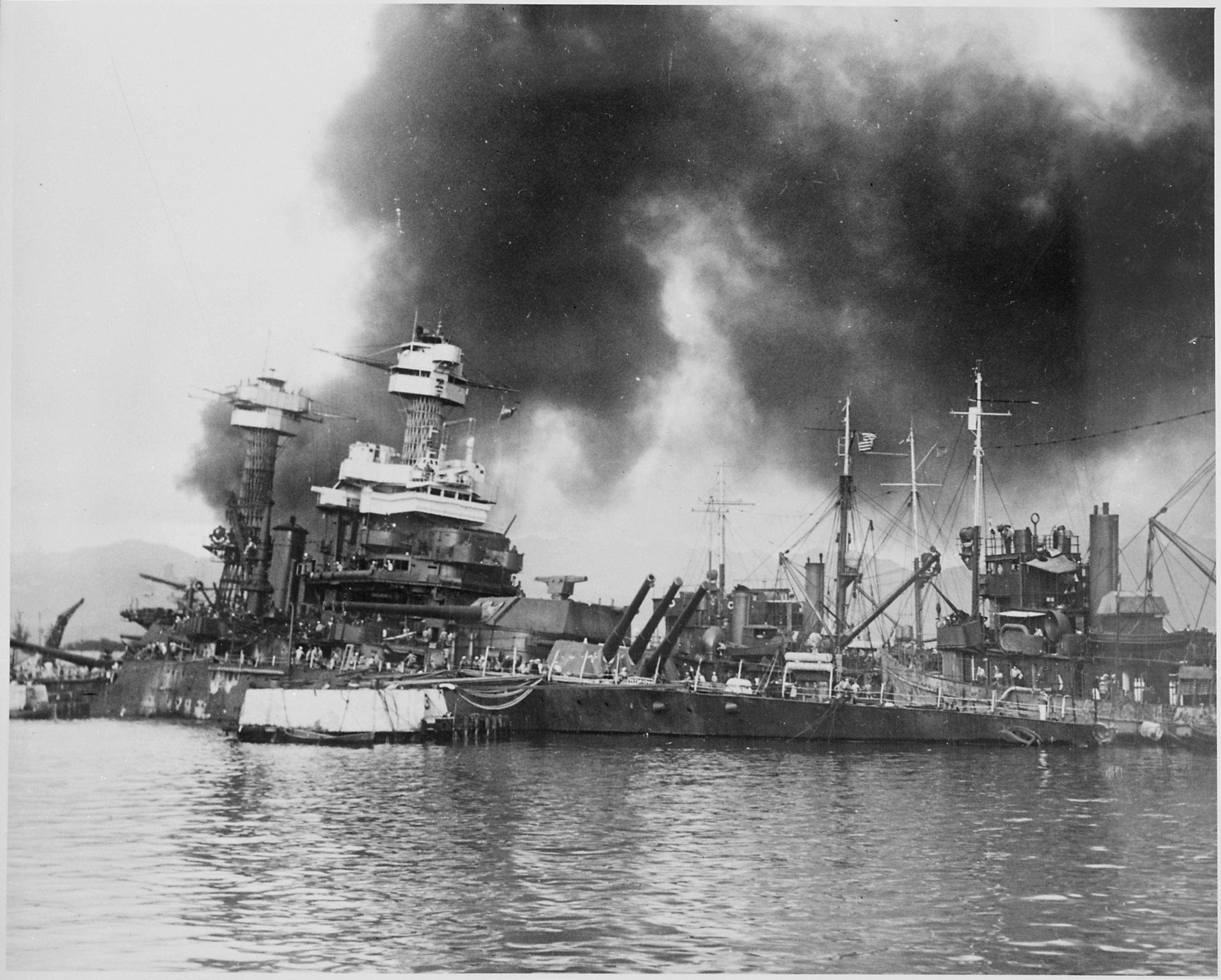 Scope and content: This photograph was originally taken by a Naval photographer immediately after the Japanese attack on Pearl Harbor, but came to be filed in a writ of application for habeas corpus case (number 298) tried in the US District Court, District of Hawaii in 1944. The case, In Re Lloyd C. Duncan related to imposition of martial law in Hawaii during World War II.